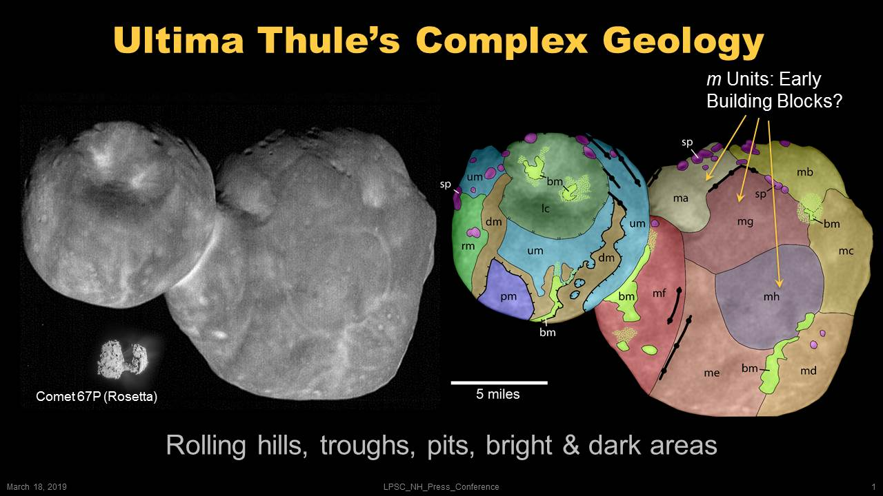 NASA - Ultima Thule - Geology - New Horizons - 20190318[1] Black lines mark troughs, notched lines mark scarp crests. The lineation circling unit mh has been nicknamed "The Road to Nowhere". The large crater lc is the "Maryland Crater" on Thule, and sp are smaller pits or craters. The areas labeled bm and dm are made of bright material and dark material, respectively. The magenta areas labeled pm are patterned material, while the green areas labeled rm are rough material, and the blue areas labeled um are undifferentiated material. The eight subunits of Ultima, labeled ma to mh, are rolling topography units that might be smaller subunits of Ultima. ( A new map produced by the New Horizons team appears to show the many different lumps of rock that converged to form the object nicknamed Ultima Thule. References ↑ Bartels, Meghan (18 March 2019). NASA's New Horizons Reveals Geologic 'Frankenstein' That Formed Ultima Thule. . Retrieved on 18 March 2019.